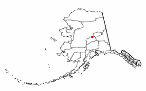 Adapted from Wikipedia's AK borough maps by Seth Ilys.